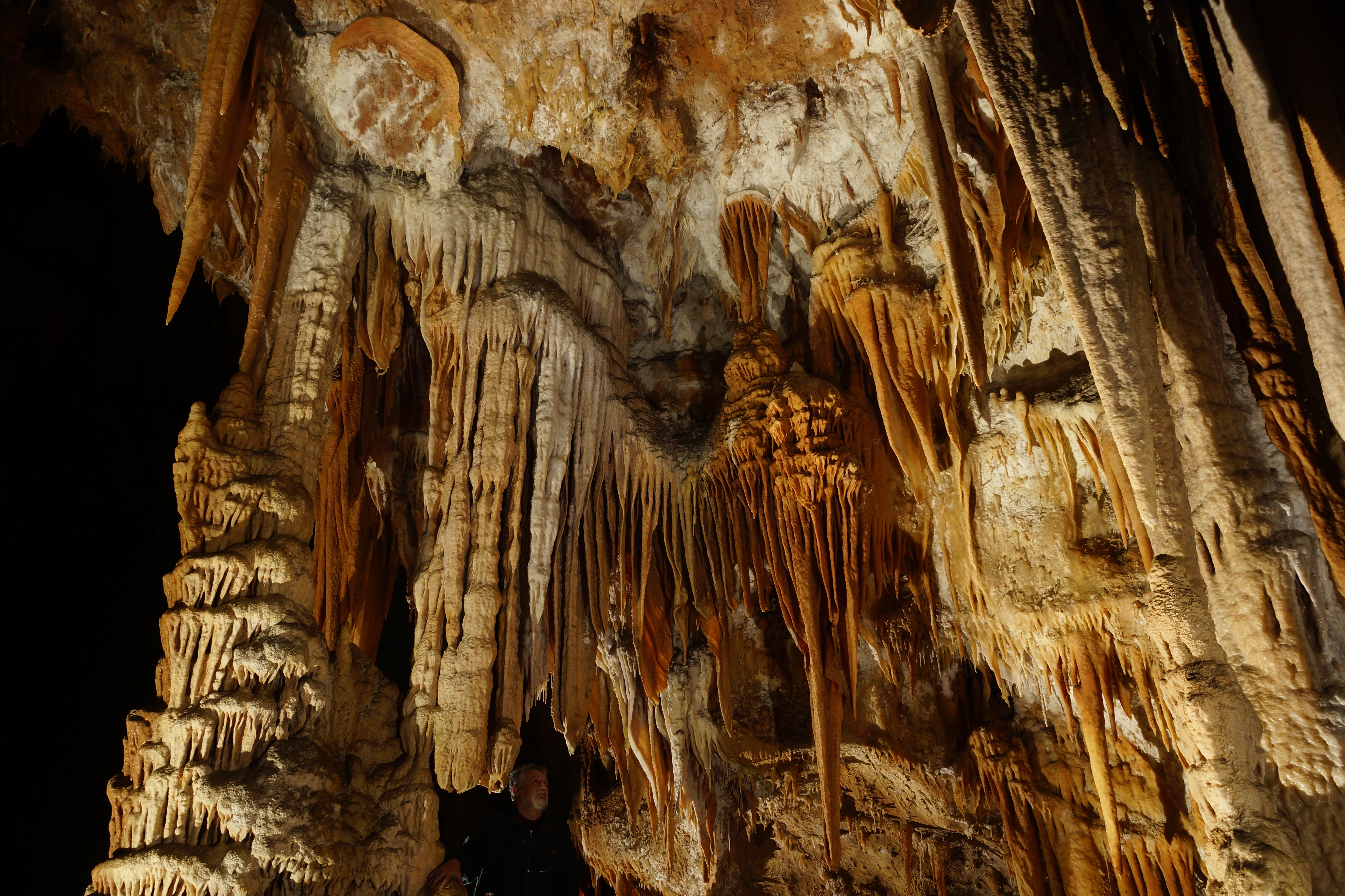 Grande salle Grotte de la Madeleine